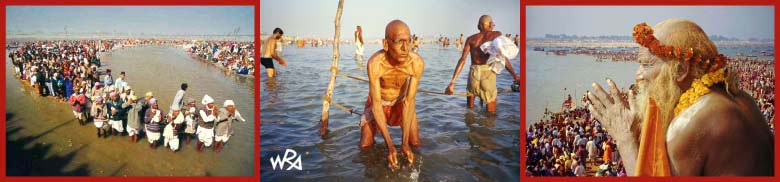 Triptych Maha Kumbh Mela. The largest gathering of humanity on planet Earth, Allahabad, India.